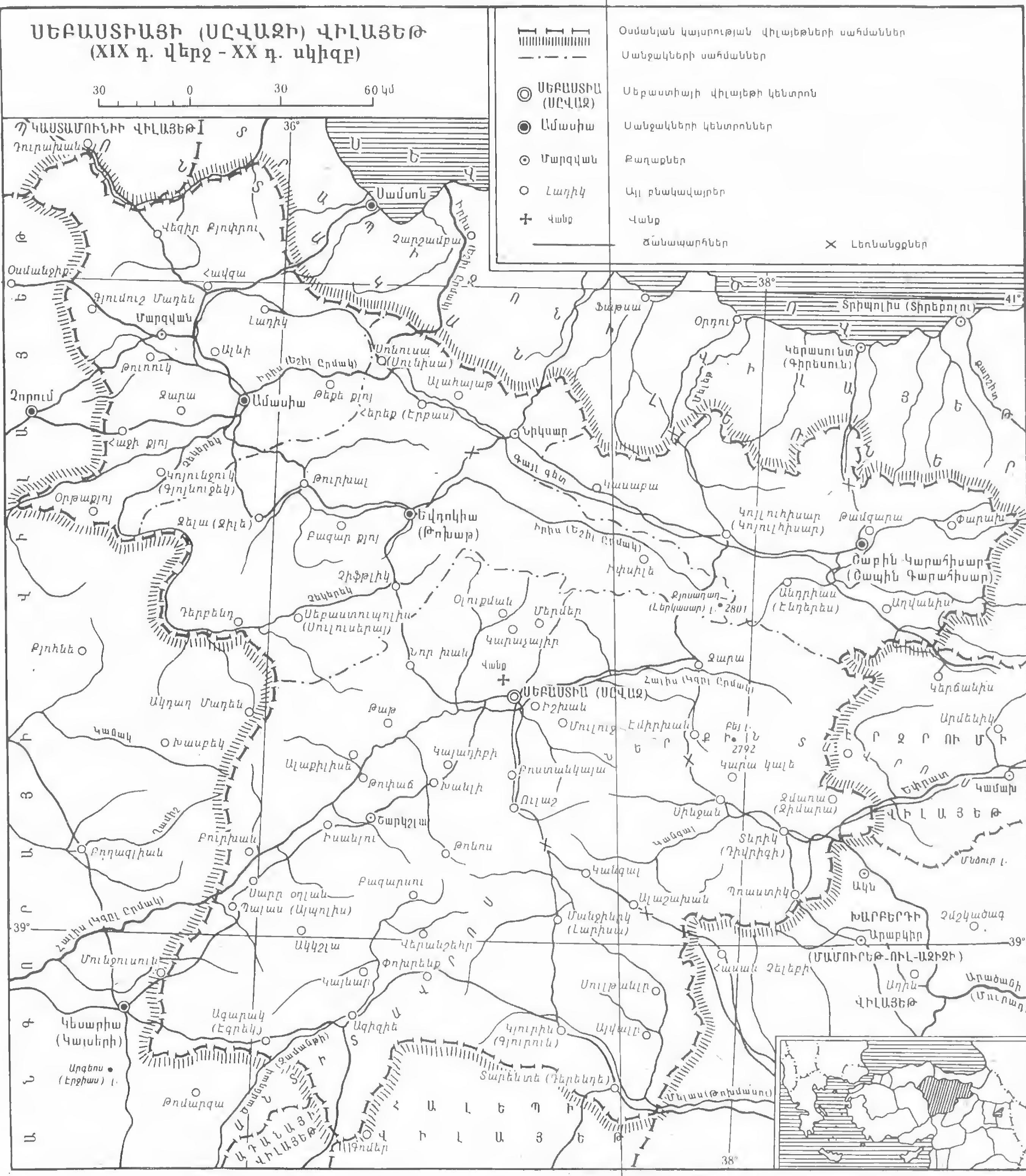 This file got from "Soviet Armenian Encyclopedia" with "Creative Commons BY-SA 3.0" License.